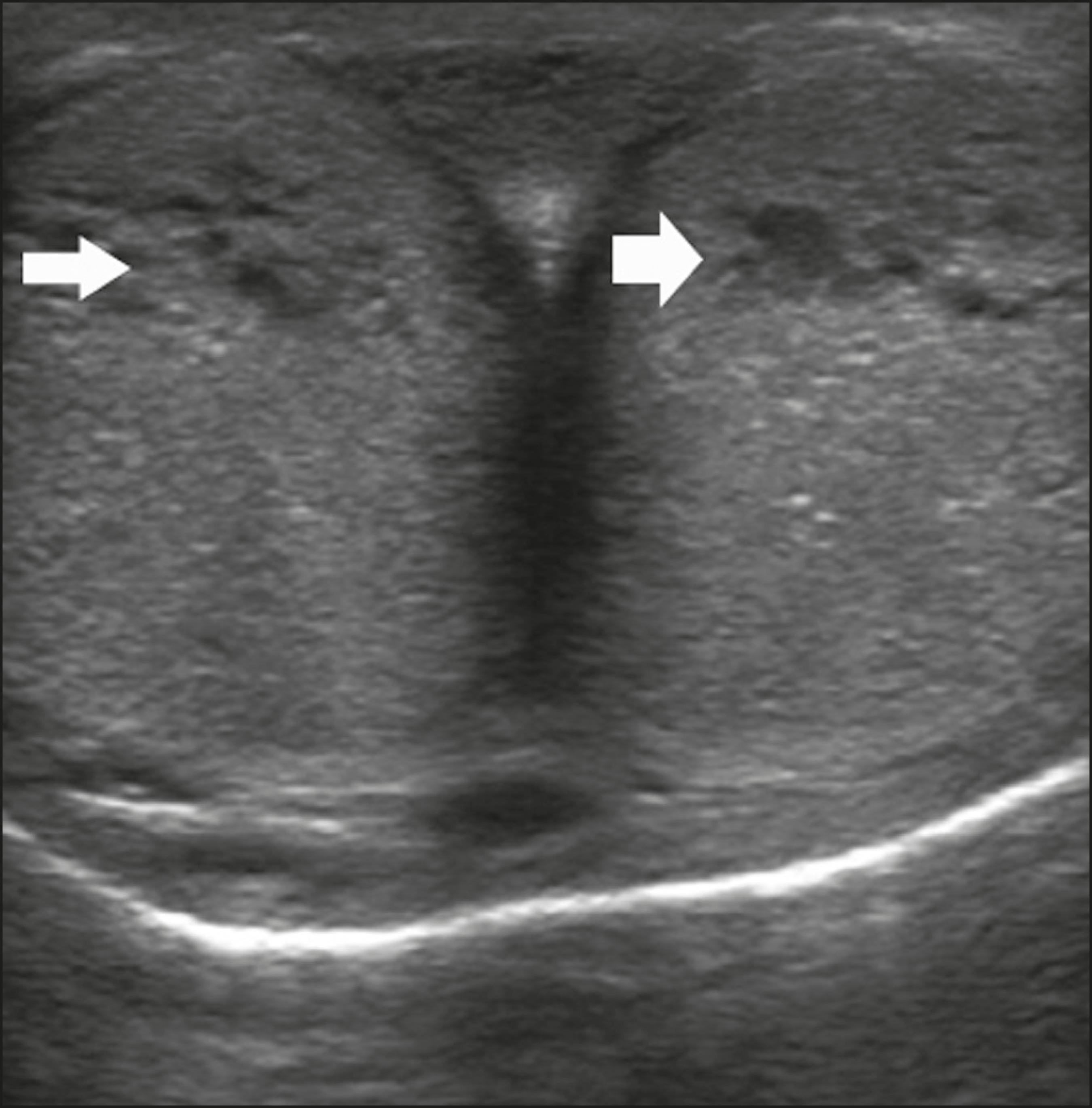 edit For context, see Penile ultrasonography.